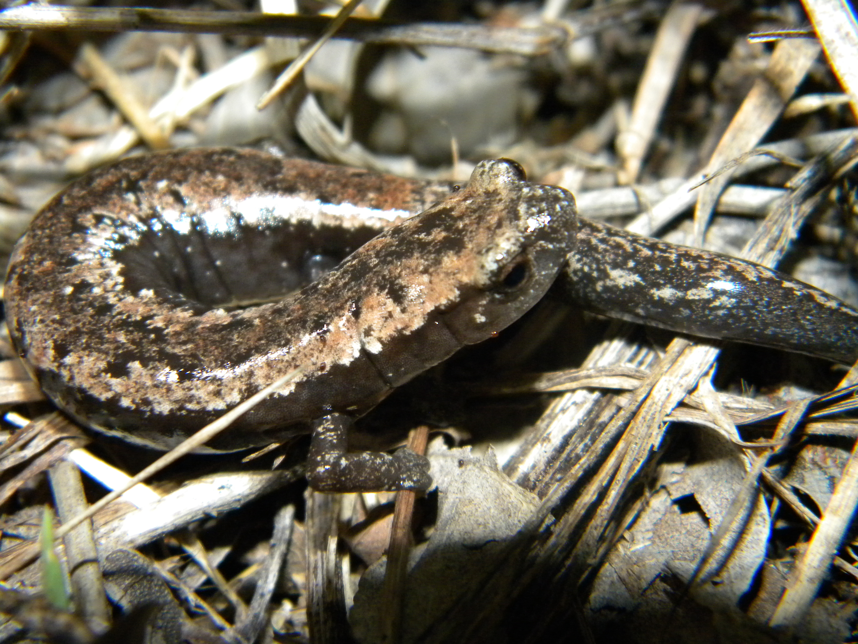 Yucatán Mushroomtongue Salamander (Bolitoglossa yucatana) Merida, Yucatan, Mexico This salamander is endemic to the Yucatan peninsula. Its legs are suited for climbing, and their tail is usually swollen with fat. They are very tolerant to dry conditions, and they are not very uncommon, but they are not usually seen by people, since they are quite secretive. Their belly is blue with white spots. I found this one on a small stick, next to the sidewalk, near a construction area, in which there's still some forest around. It rained a little bit that day, and its hiding spot was a crevice under the sidewalk.